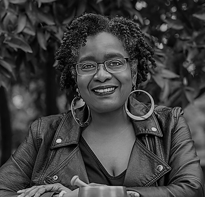 Glass & mixed media artist Cheryl P. Derricotte.